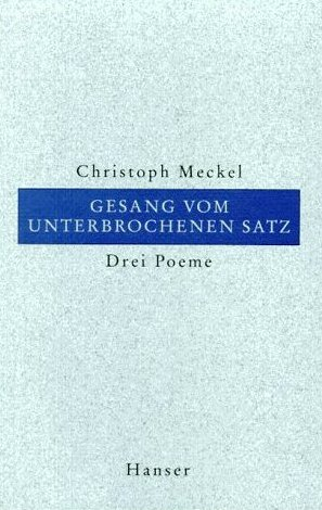 Bookcover of "Gesang vom unterbrochenen Satz" by Christoph Meckel